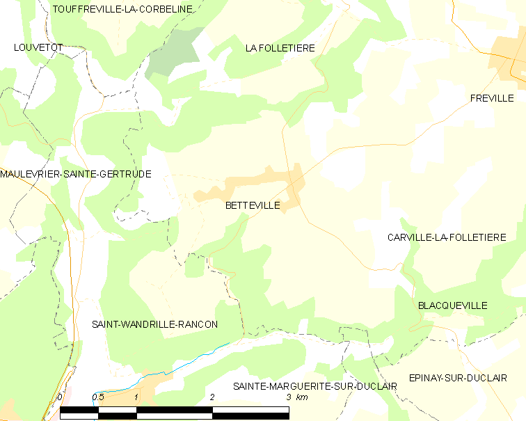 Map of French municipality Betteville